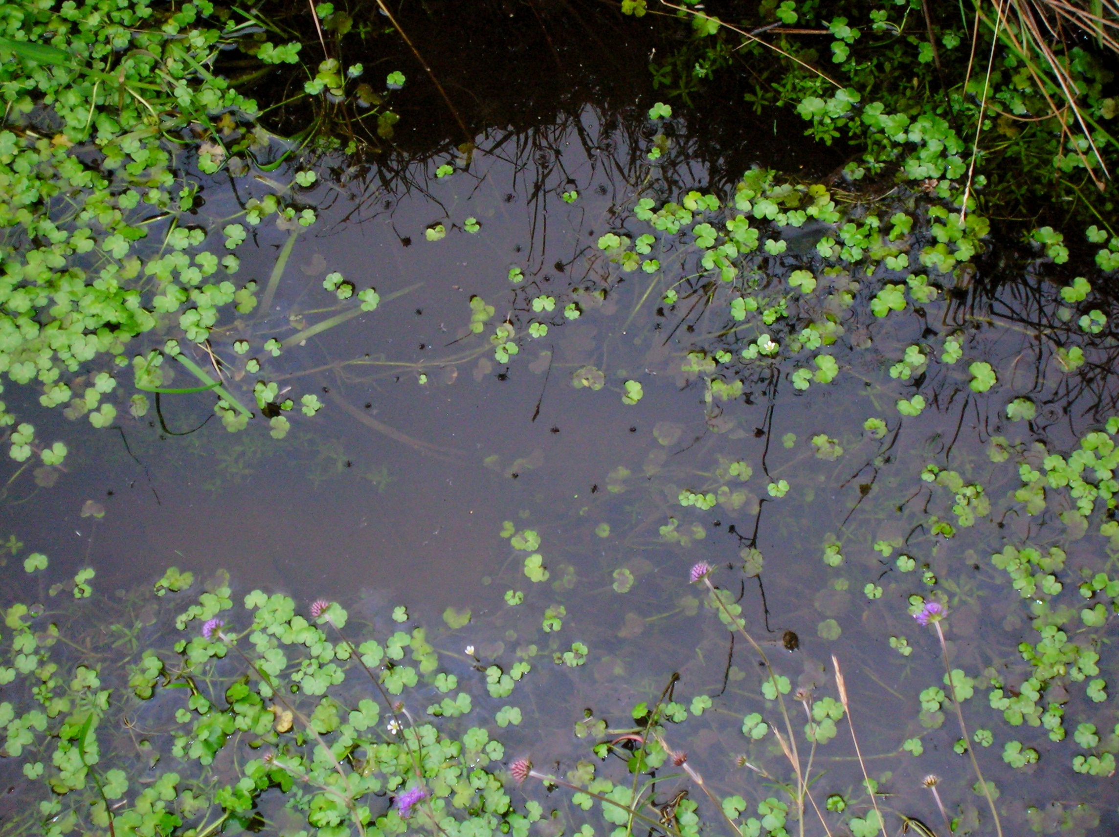 Marsh Pennywort in the Cadgerford Burn, Lochlands Farm, Beith, North Ayrshire, Scotland.